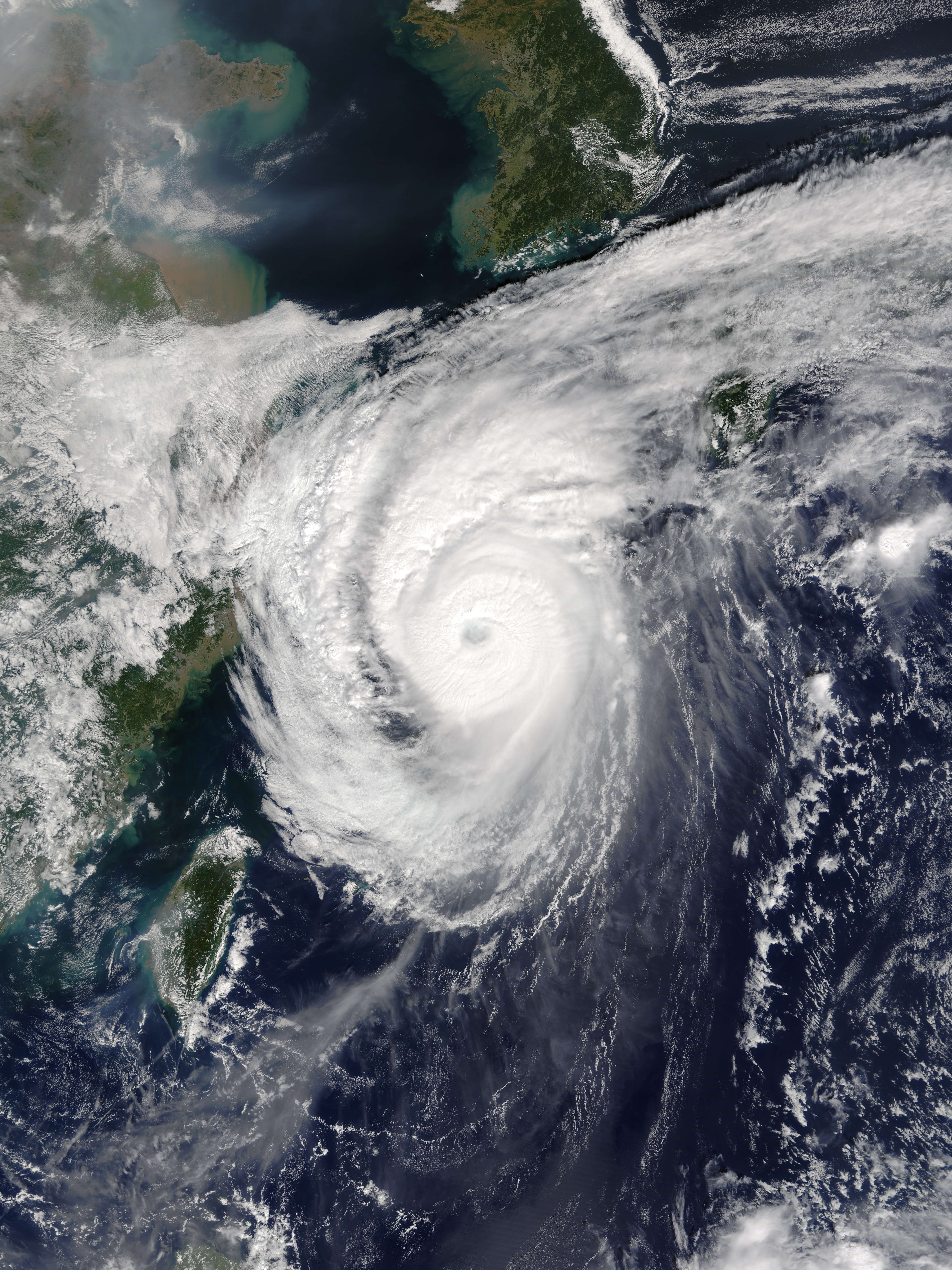 Typhoon Chaba over the East China Sea on October 4, 2016.